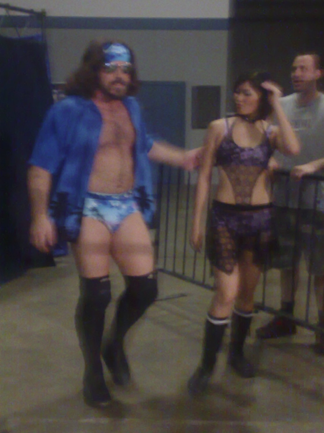 Professional wrestler Joey Ryan with his valet, Jade Chung at Pro Wrestling Guerrilla's Battle Of Los Angeles 2007 on September 2007.